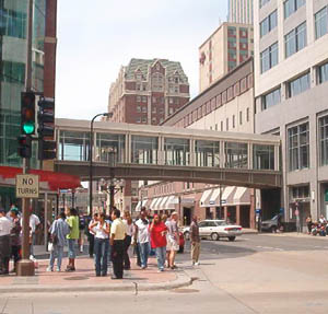 Minneapolis skyway (exterior) 9th Street & Nicollet Mall. Photo by Hephaestos GFDL Category:Images of Minneapolis, Minnesota Category:Images of Minnesota